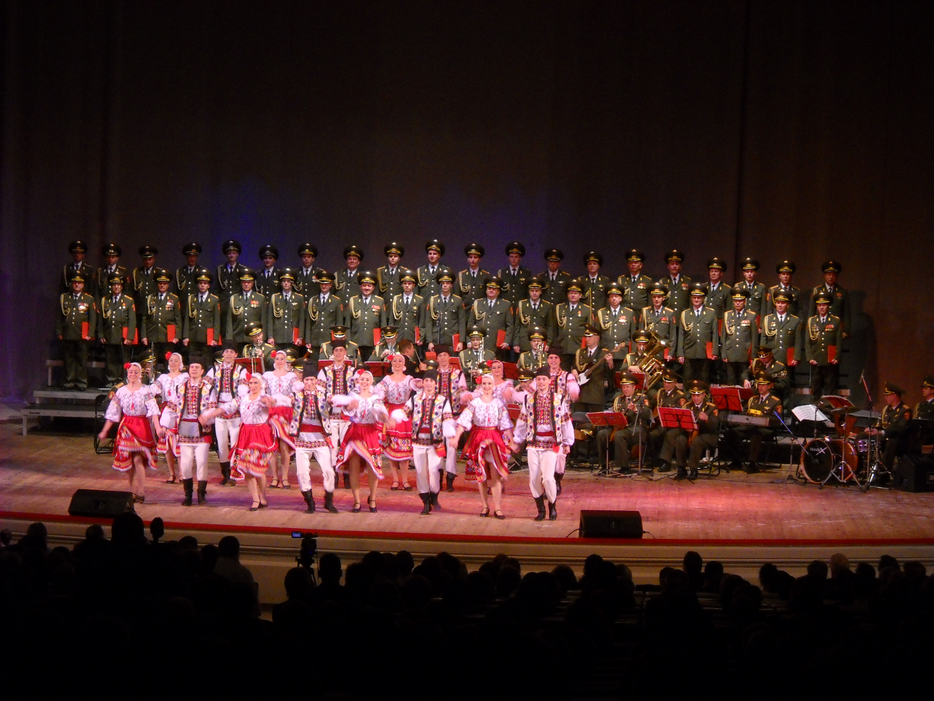 Alexandrov Song and Dance Ensemble in concert. Warsaw, 27 October 2009.